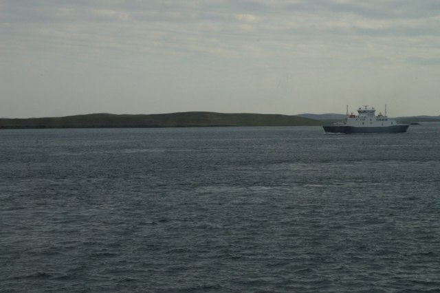 Samphrey with one of the Yell Sound ferries passing; the photo was taken from the other ferry. Shetland Islands.